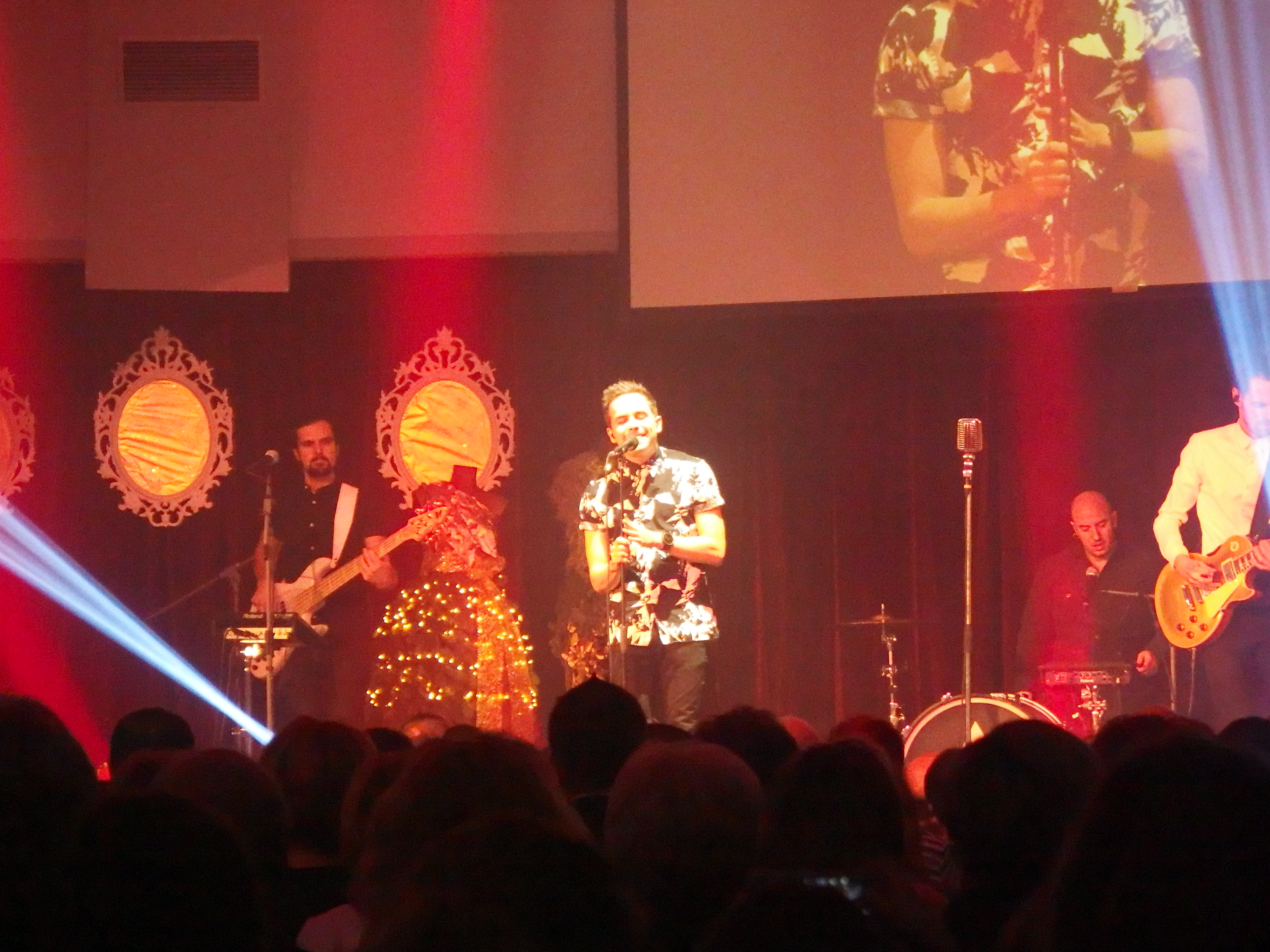 Slza, a musical group from the Czech Republic.